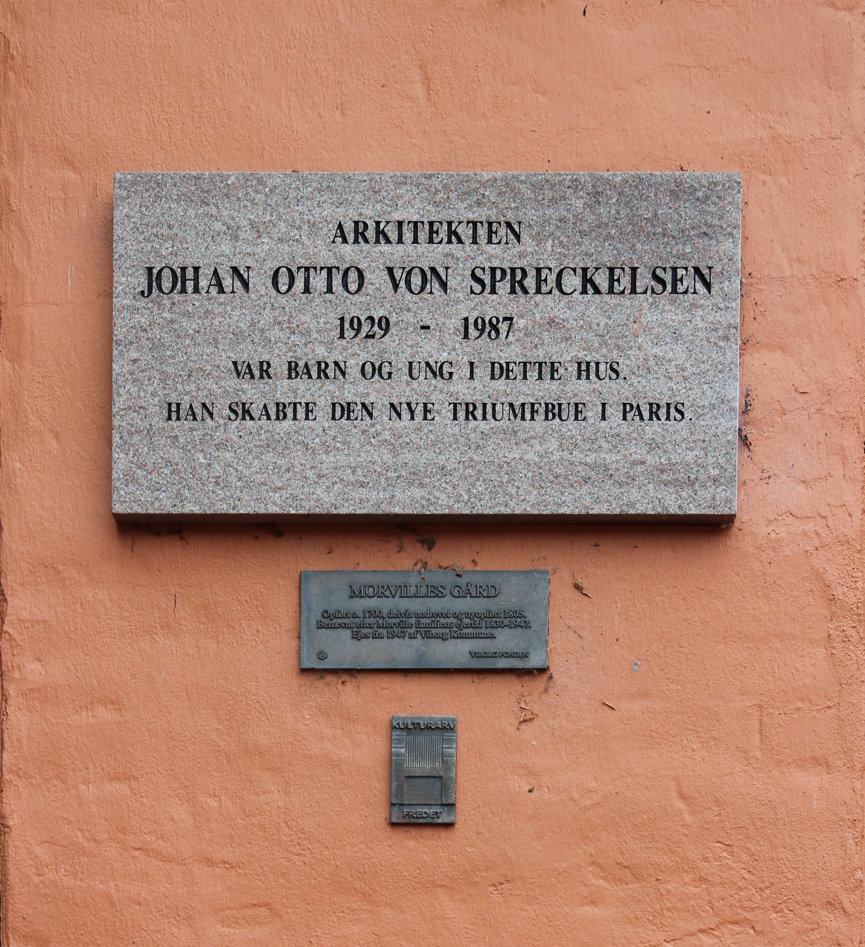 Name plate on Morvilles Gård, Viborg, Denmark for the architect Johan Otto von Spreckelsen. Below also a name plate for the building itself.